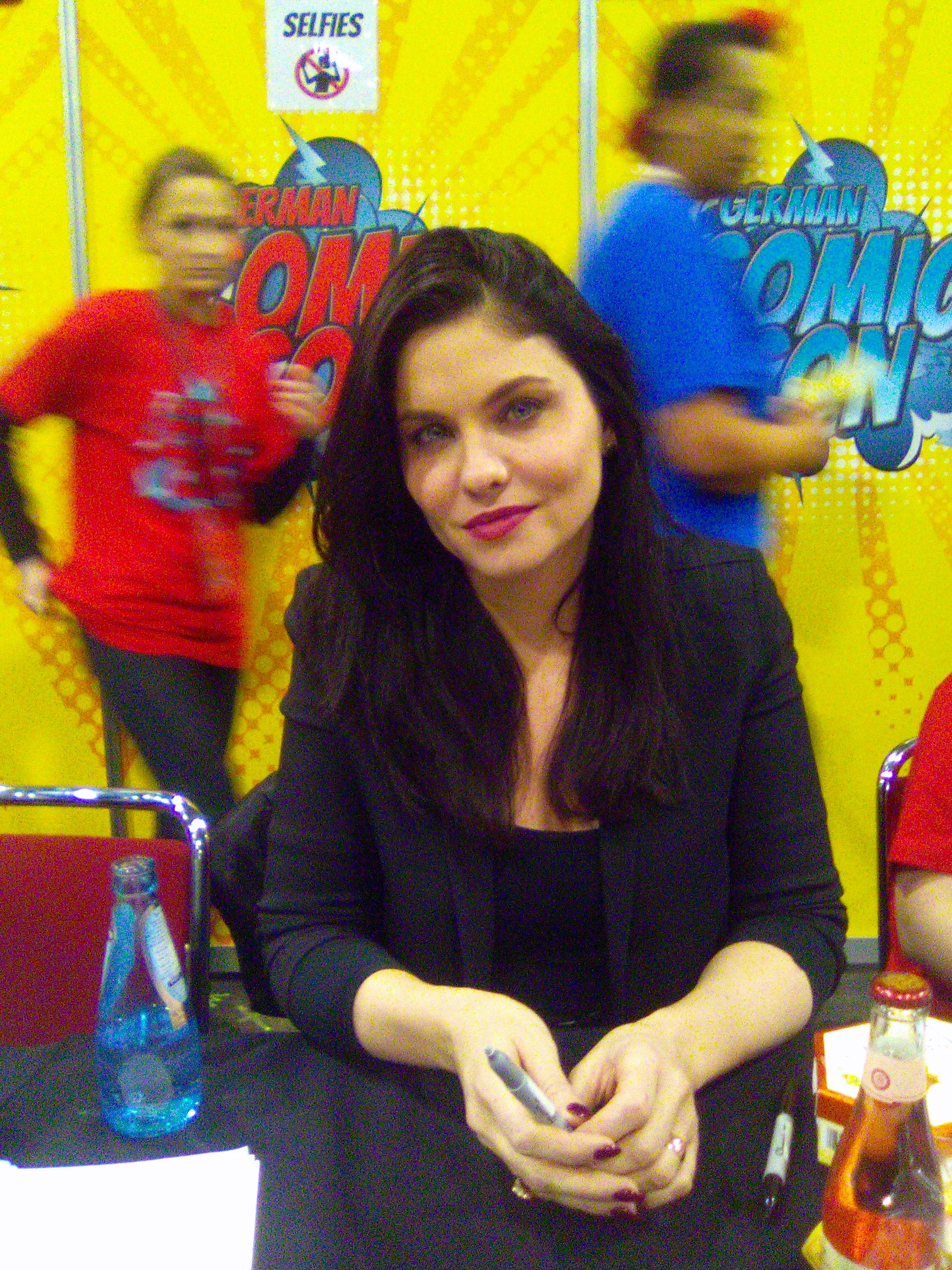 Jodi-Lynn O’Keefe at the German Comic Con in Dortmund 2016.